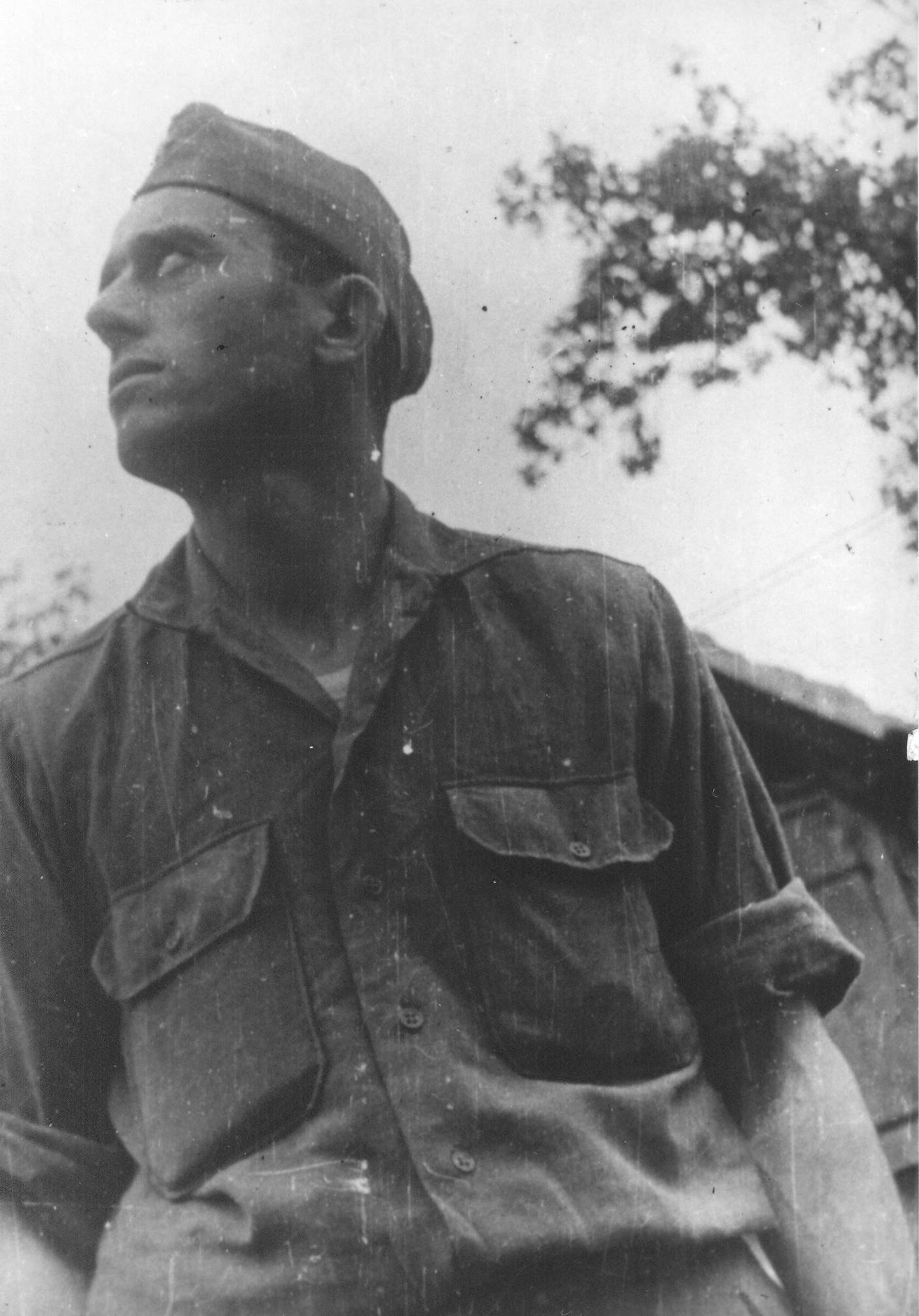 Vlado Bajić (1915-2004)